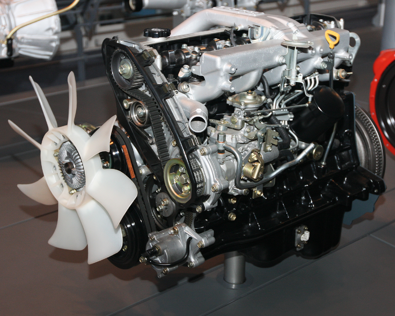 1989 Toyota 1HD-T Type diesel engine. L6 4,163cc.